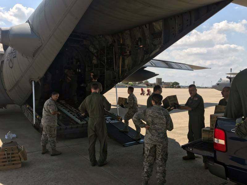 U.S. military relief crews load supplies aboard a C-130 Hercules aircraft from the Illinois Air National Guard’s 182nd Airlift Wing based in Peoria. The C-130 and crew have been assisting with Hurricane Harvey relief efforts since Aug. 31. (Submitted photo.)